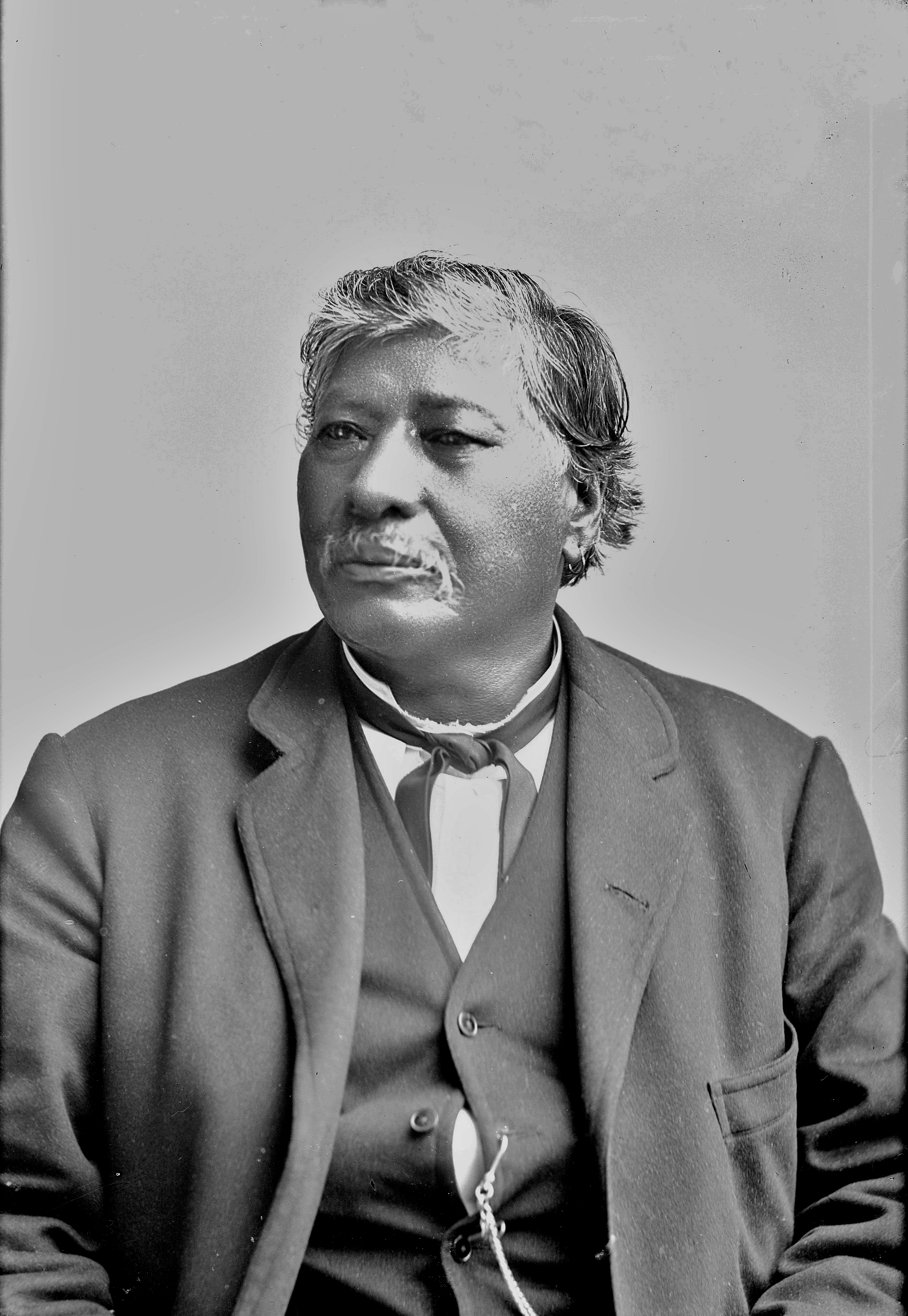 John Jumper was a Seminole. His Seminole Indian name "Hemha Micco." He lived from c.1820 to September 21, 1896. He was born in Florida and died in Indian Territory (later known as Oklahoma).